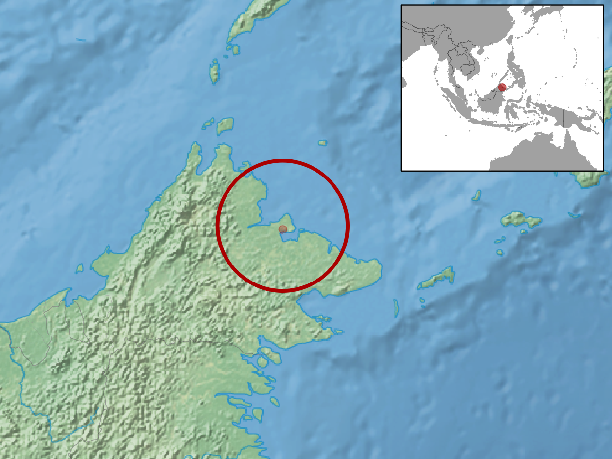 geographic distribution of Arielulus cuprosus